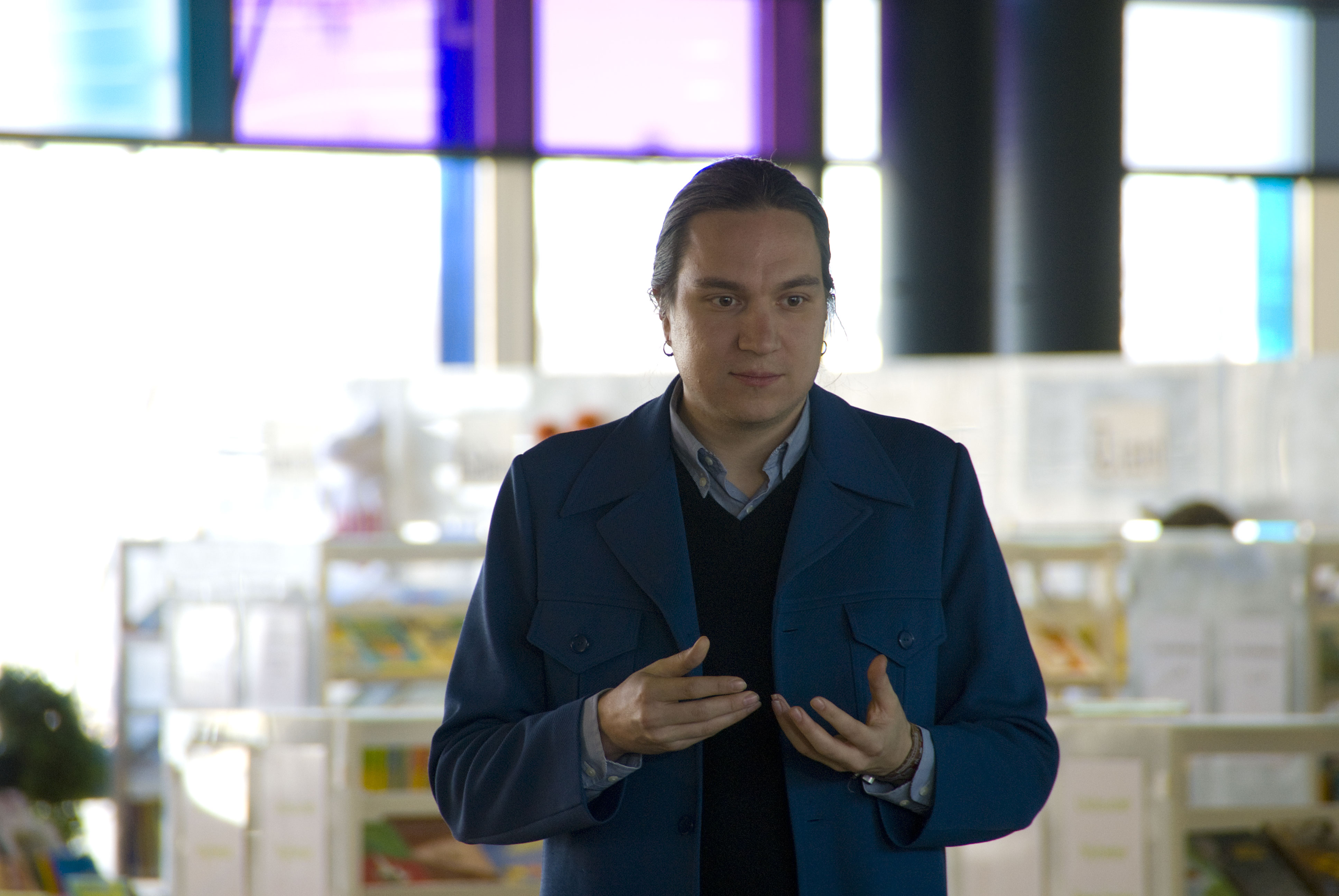 Finnish futurist Aleksi Neuvonen.